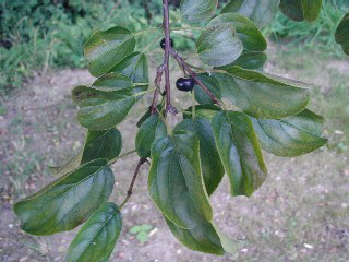 Rhamnus cathartica